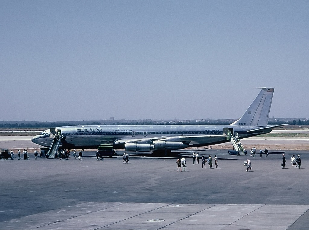 This unpainted plane was leased [in the late of 1960's] from "FLYING TIGER LINES"'. You can see its marking together with EL-AL marking. Also the American flag on the edge of the tail. Sadly, this plane crashed on March 21, 1989 (21 victims) at Sao Paulo while in the service of "TRANSBRASIL AIRLINES" as a freight plane.